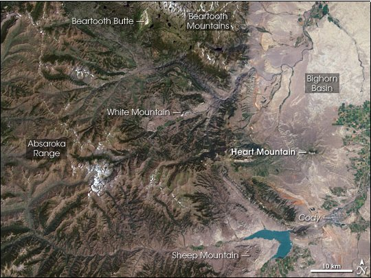 Landsat image of Bighorn Basin and the Absaroka Range, Wyoming, USA.